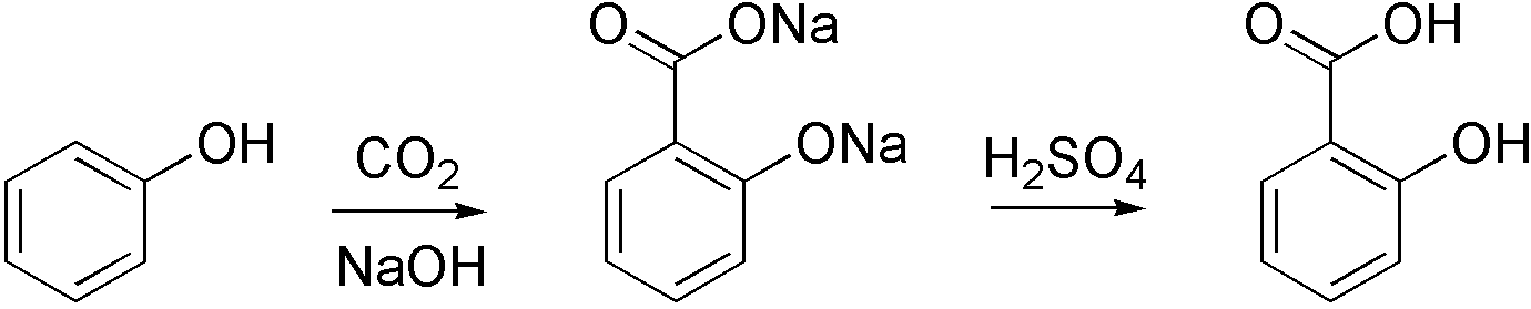 Diagram showing the Kolbe-Schmitt reaction used in the synthesis of aspirin.